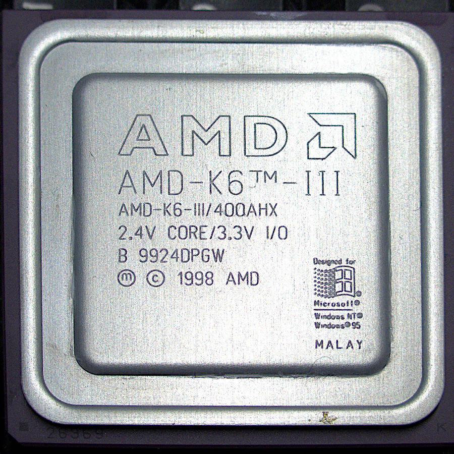 AMD K3-III/400AHX